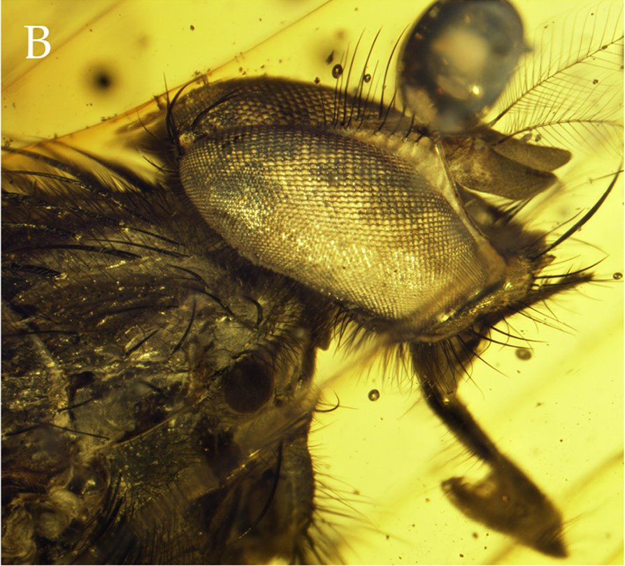 Fig 1. Holotype of Mesembrinella caenozoica (B) head and part of thorax in right dorsolateral view.